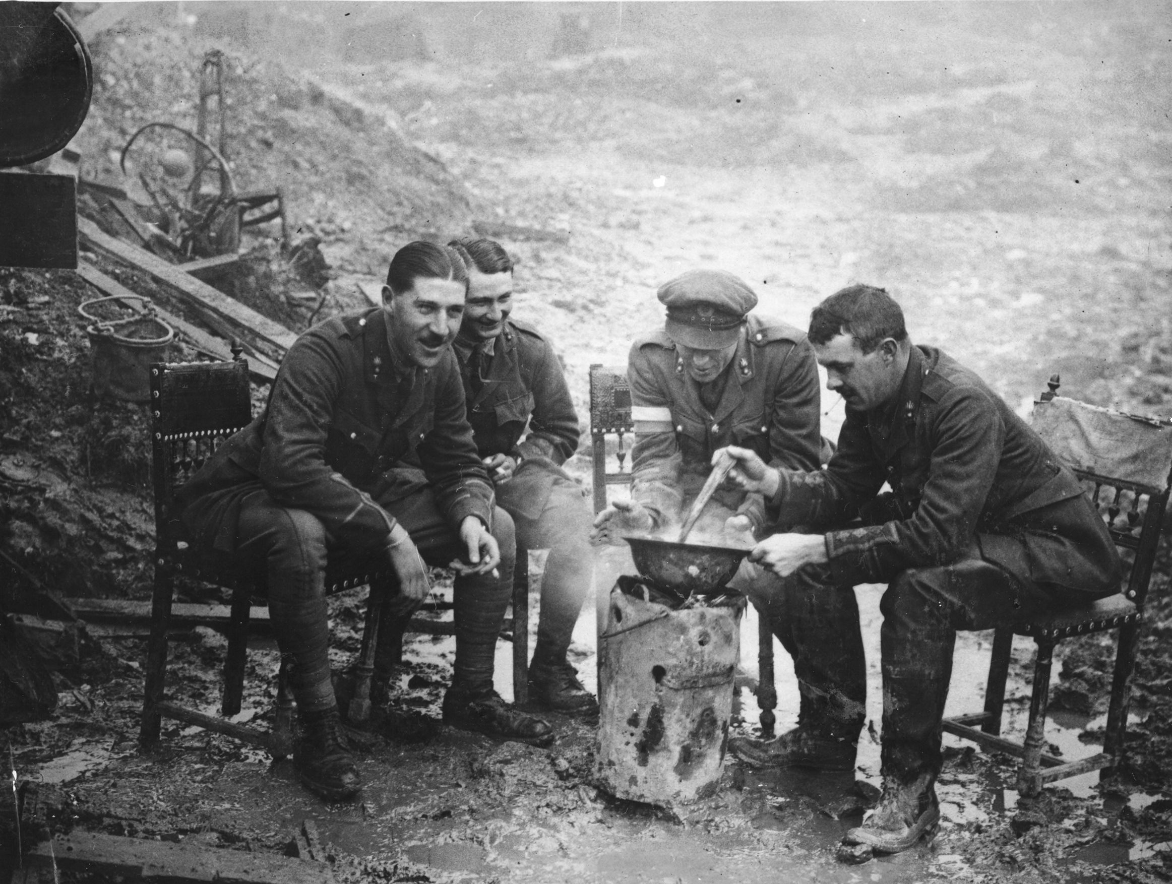 Officers cooking, Western Front, during World War I. Four officers seated on chairs around a brazier. One of the men is cooking in a steel helmet on the brazier. The rather formal middle-class dining chairs are in stark contrast to the mud and rubbish in which they are set. This is one of a number of images of both officers and men cooking for themselves. The official rations were cooked in big field kitchens, but were often cold or inadequate. Many men supplemented them with extra food which they cooked themselves. Behind the lines, local cafes and bars were also very popular. [Original reads: 'Open air cookery near Miraumont-le-Grand.']